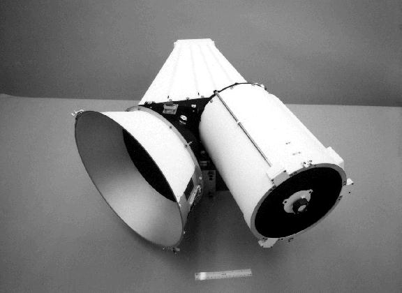 Photo of the Near-Infrared Mapping Spectrometer (NIMS) instrument that was incorporated into the Galileo spacecraft.